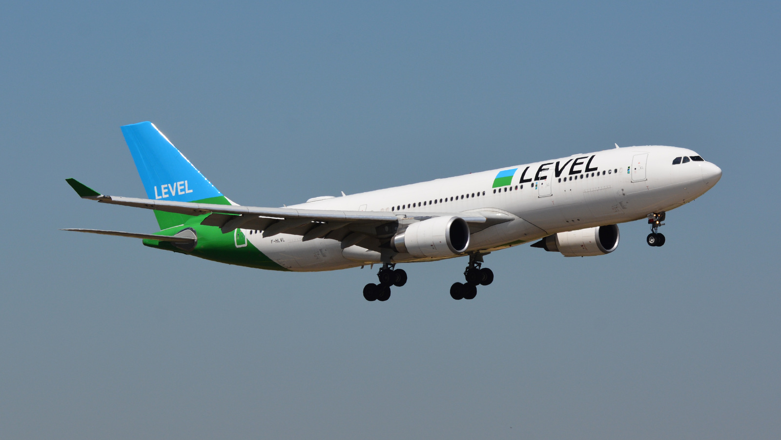 Paris-Orly Airport